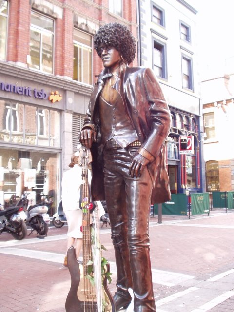 Statue of singer, songwriter, poet, rocker and Thin Lizzy frontman Philip Lynott (outside Bruxelles Bar on Harry Street, Dublin, Ireland).